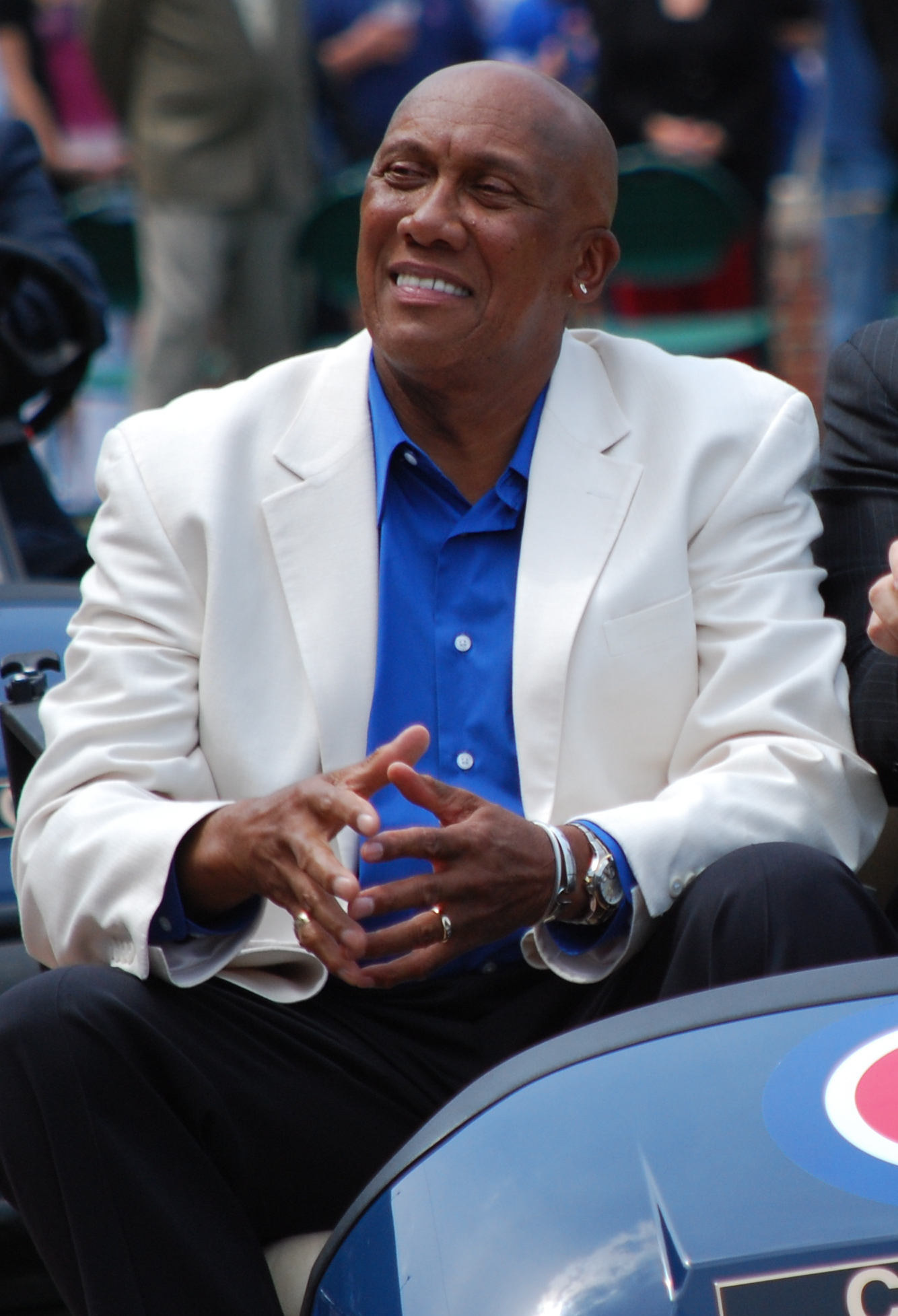 Description Ferguson Jenkins DateSourceI created this work entirely by myself.AuthorScottRAnselmo (talk) 02:10, 4 May 2009 . . ScottRAnselmo . . 1,334×1,955 (638 KB) Ferguson Jenkins